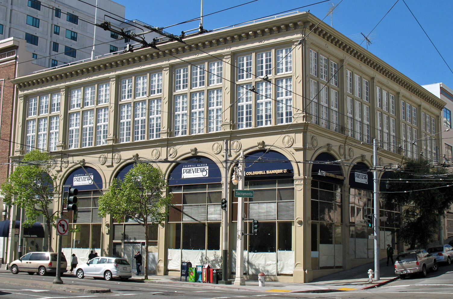 National Register of Historic Places in San Francisco, California. Paige Motor Car Company Building, 1699 Van Ness Ave, San Francisco, California, USA. Photographed 2008-03-23 by Mike Hofmann from the northeast corner of Van Ness Ave. and Sacramento St.